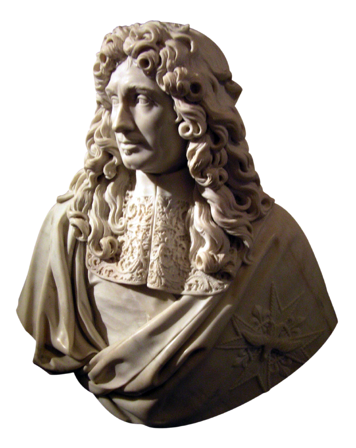 Portrait of Jean-Baptiste Colbert (1619-1683). Marble, replica of the bust commissionned by the Royal Academy of painting and sculpture for Colbert himself, then patron of the institution.